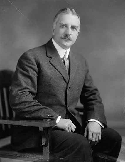 Frederick C. Hicks, Congressman from New York